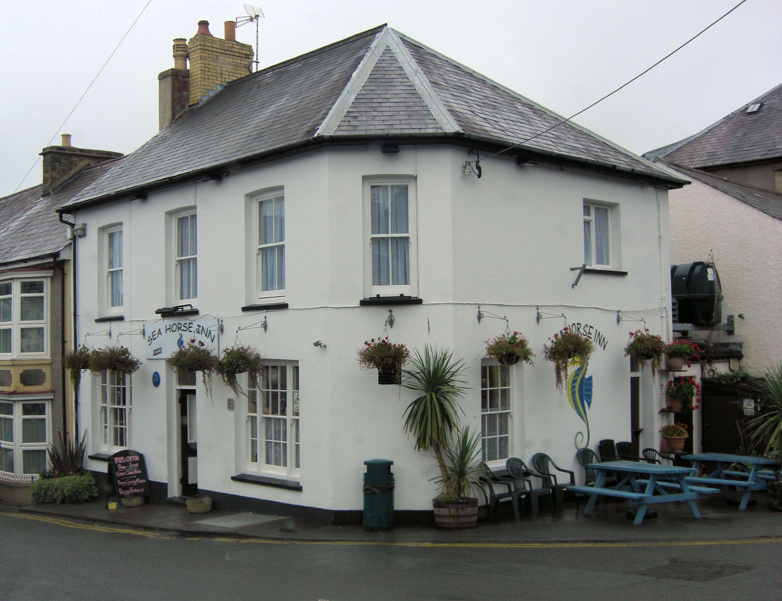 The Seahorse Inn, New Quay, Wales. Formerly known as the 'Commercial' in may have been the inspiration for Dylan Thomas to create the Sailor's Arms in 'Under Milk Wood', because it was known as the Sailor's Home Arms at one time. Part of the Dylan Thomas Trail